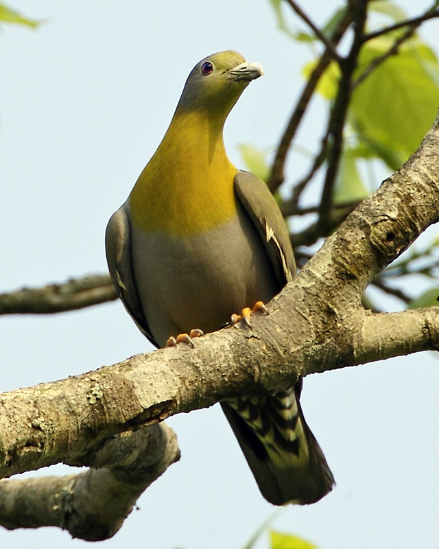 Yellow-footed Green-Pigeon (Treron phoenicopterus). A male in Kaziranga, Assam, India.